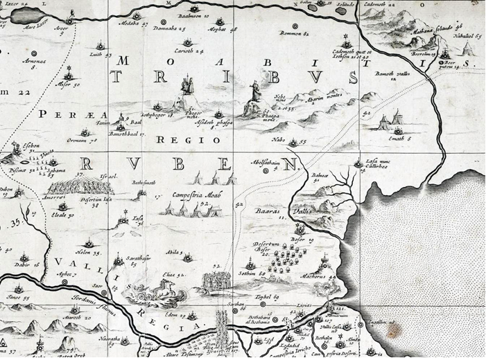 Tribe of Reuben in the Promise Land